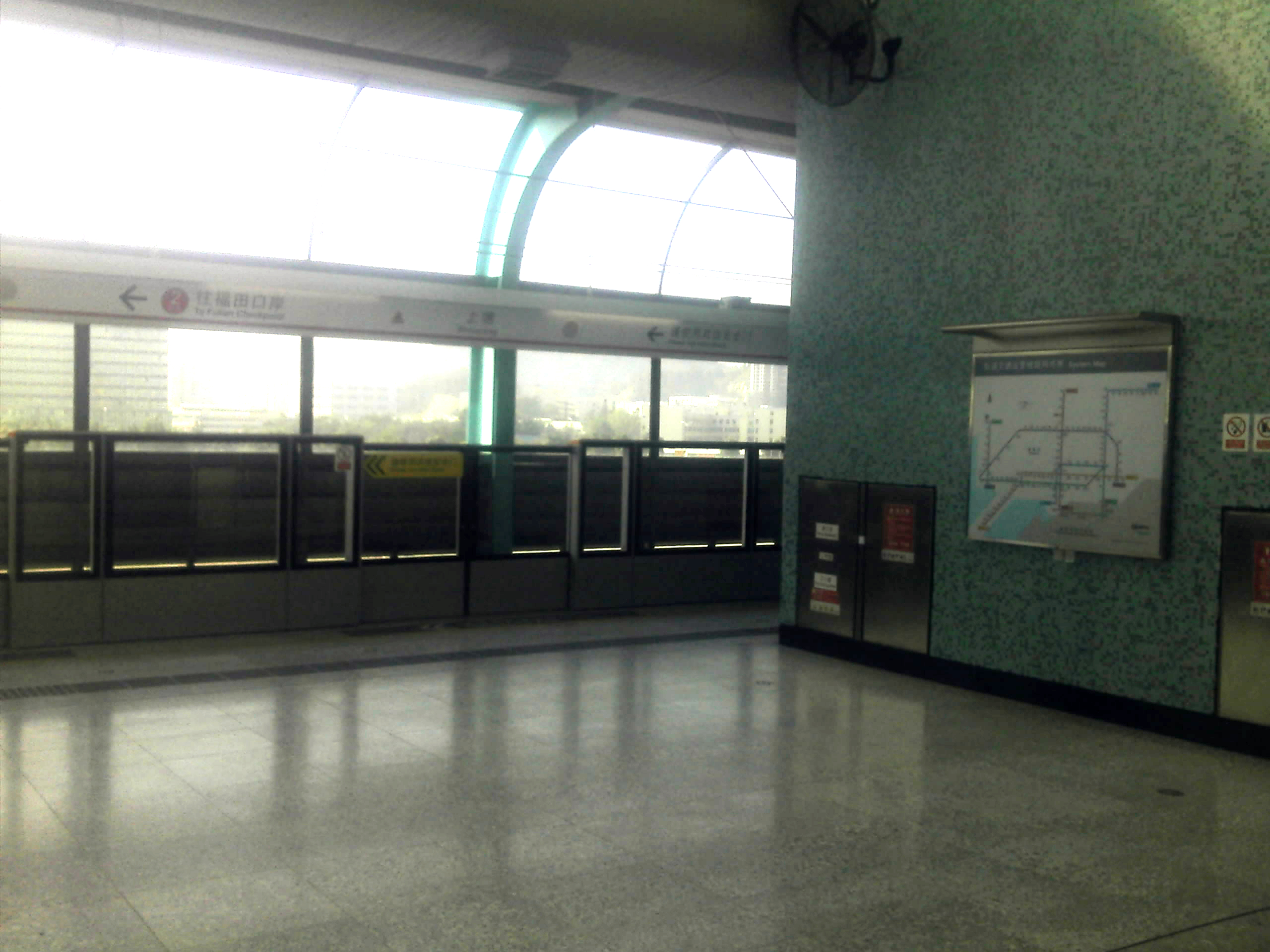 This photo was taken as Dec 10, 2011 at Shangtang Station.